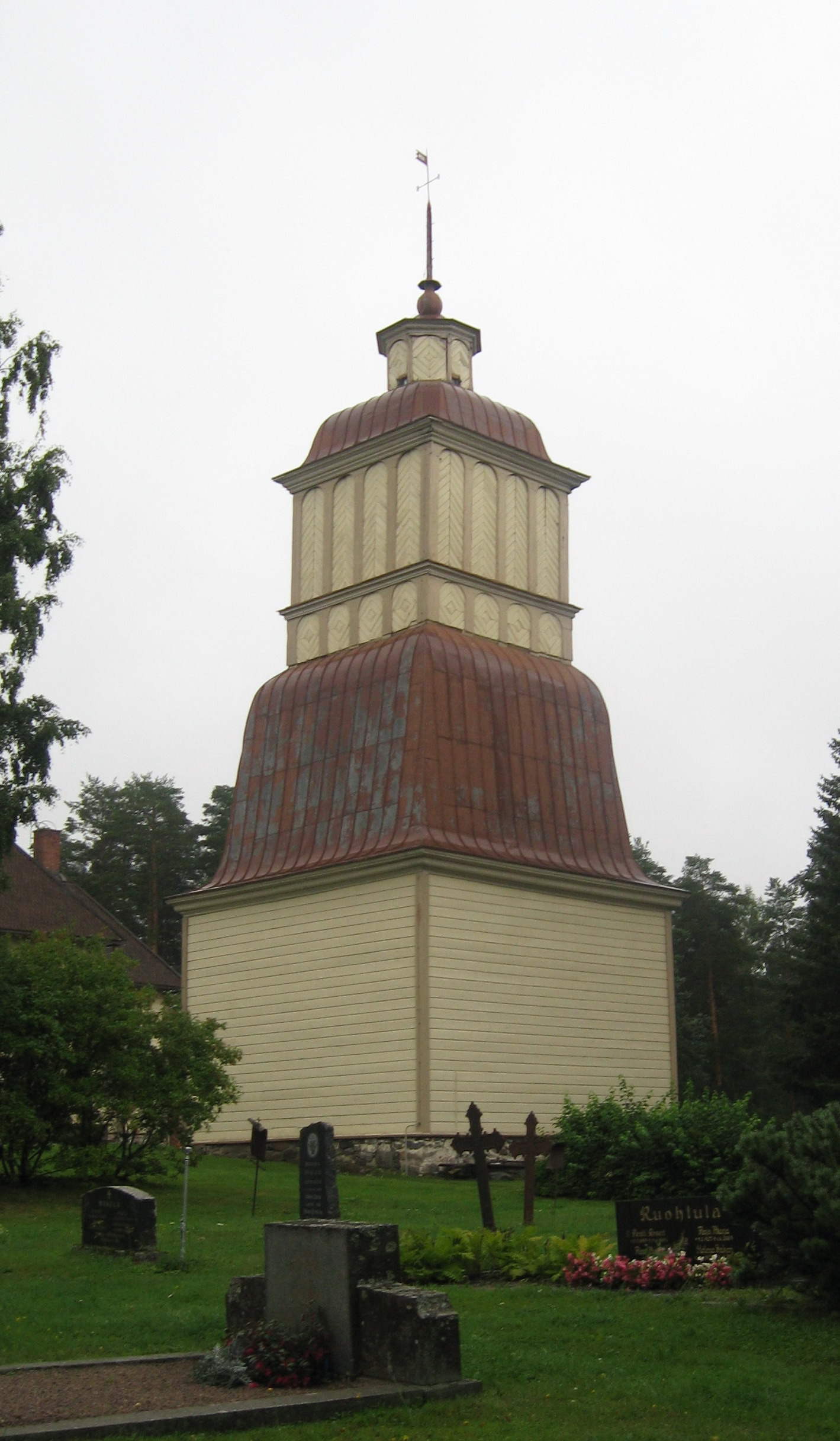 Joutsa church bell tower, Joutsa, Finland. Completed 1820 (estimate).